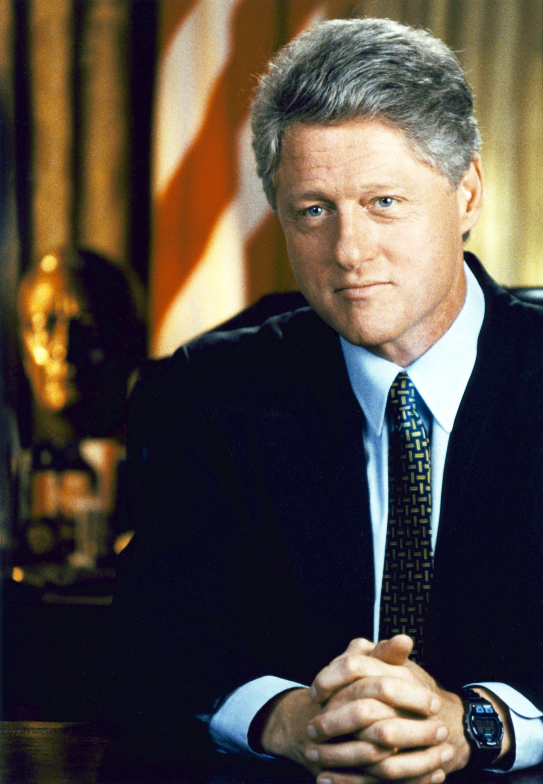 Historical Portrait: William J. Clinton Reuse Restrictions: None - This image is in the public domain and can be freely reused. Please credit the source and/or author listed above.